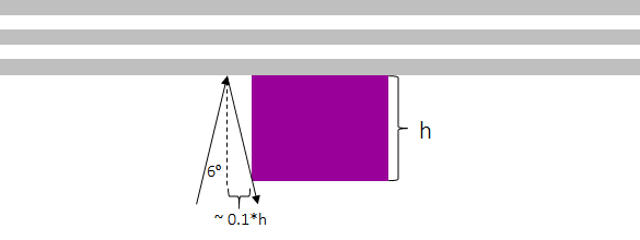 A feature on an EUV mask can easily be considered optically thick, when the width is comparable to the thickness (e.g., 70 nm). In such a case, the shadow distance can be a substantial portion of the linewidth or critical dimension (CD).